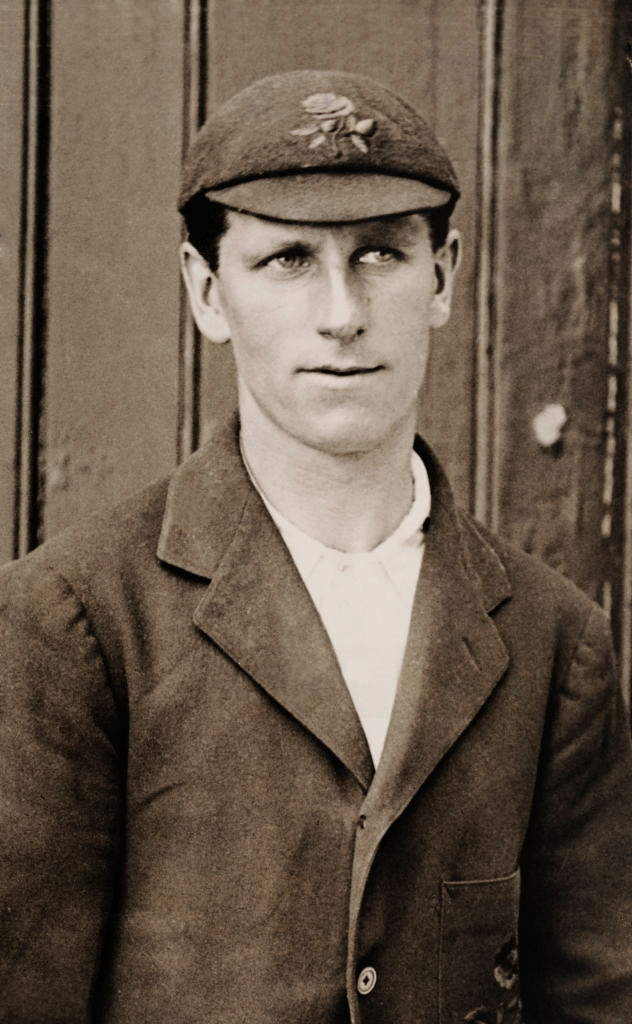 Lancashire and England cricketer Ernest Tyldesley, at Old Trafford in Manchester, circa 1925.